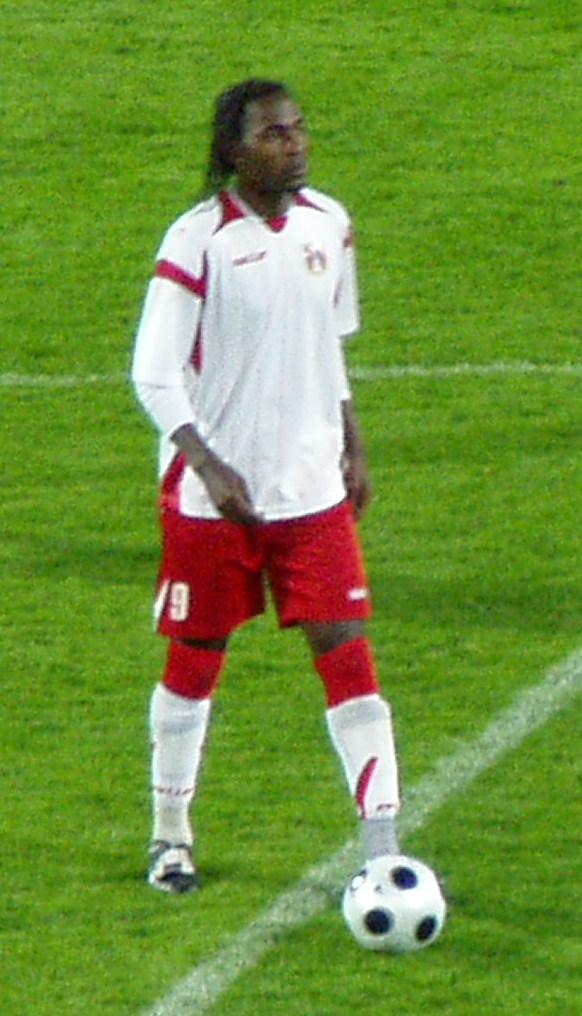 Dave Anthony Simpson Canadian association football player.